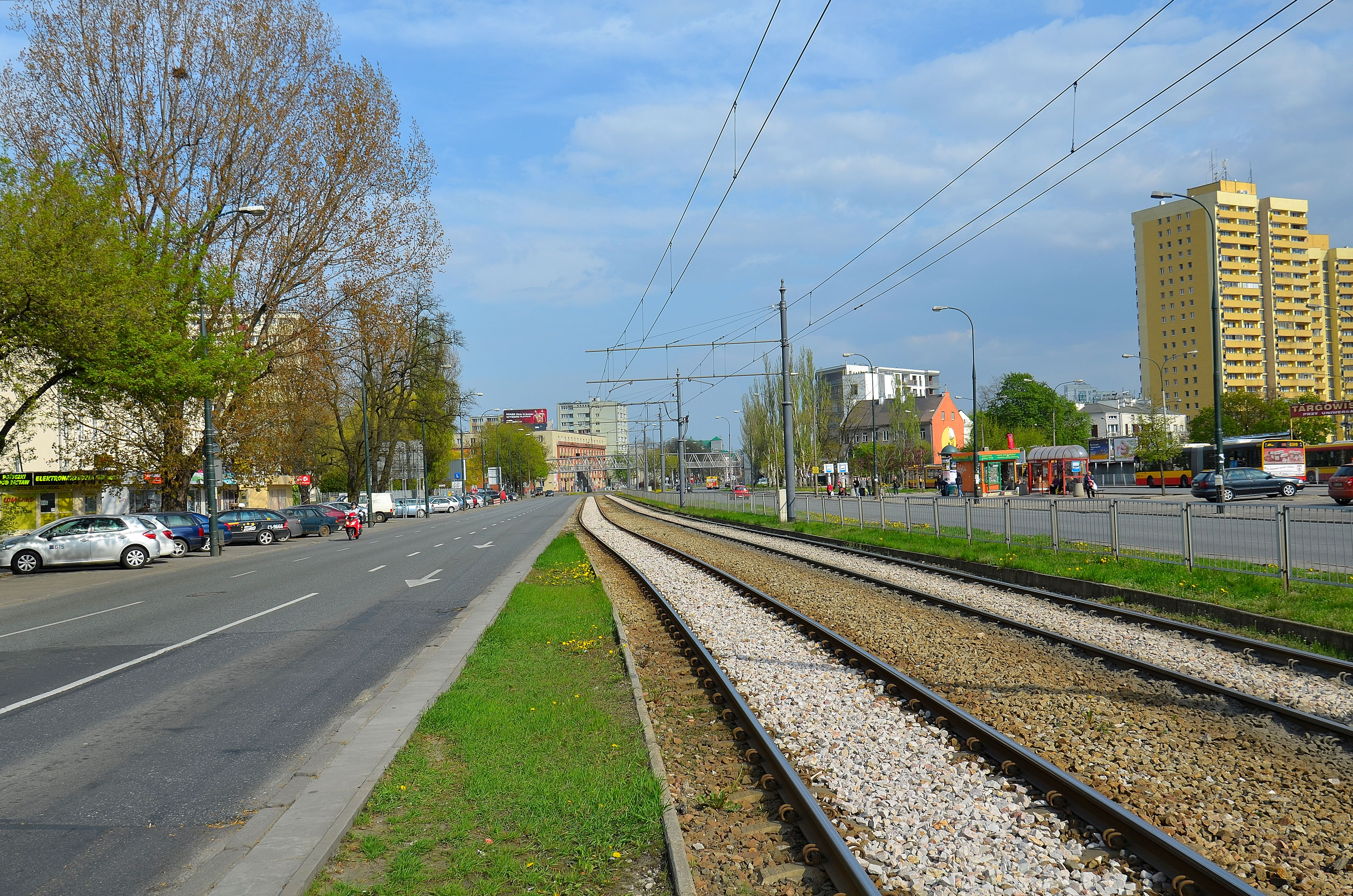 Grochowska Street in Warsaw